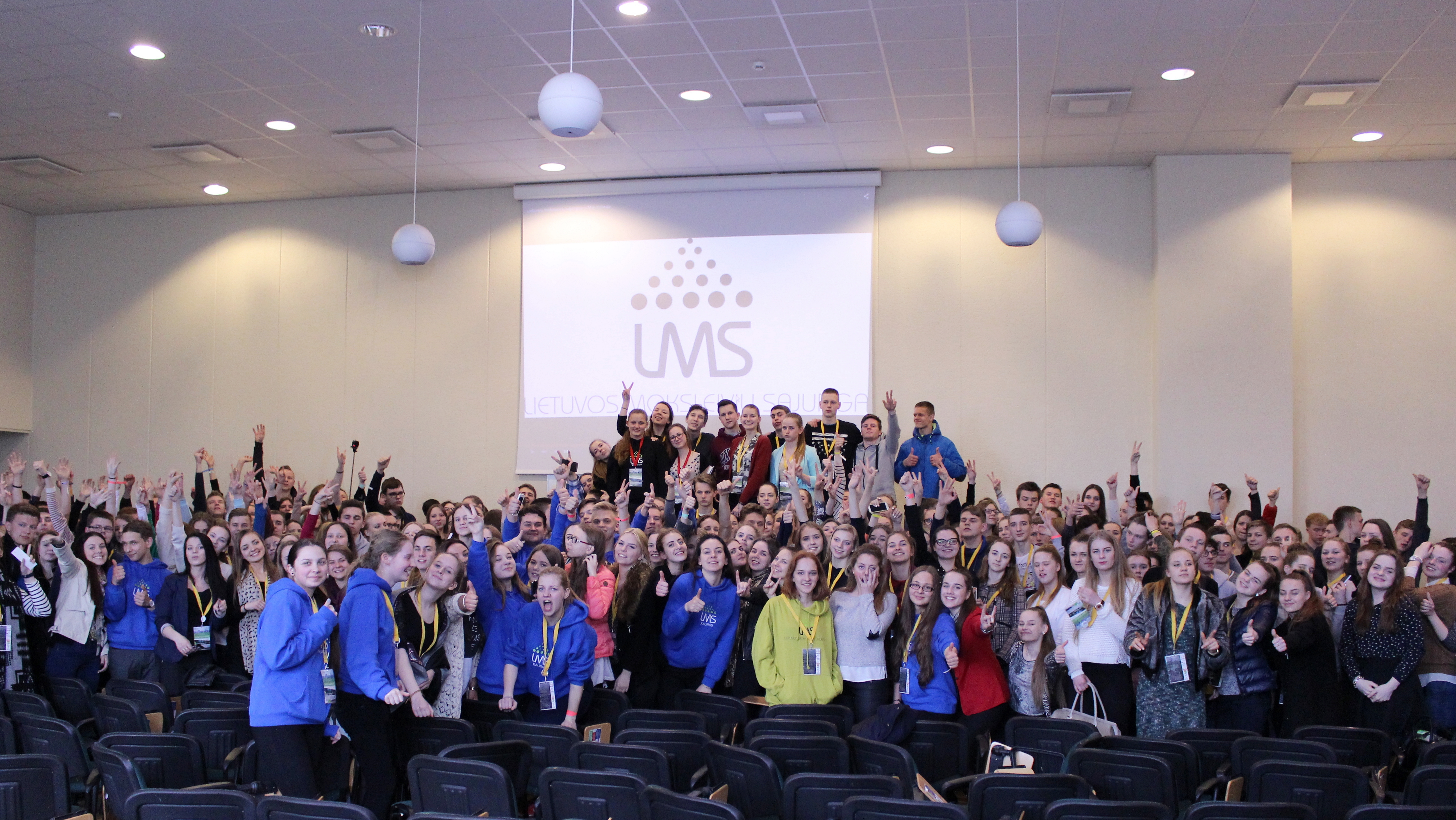 Lithuanian School Students' Union Spring Forum